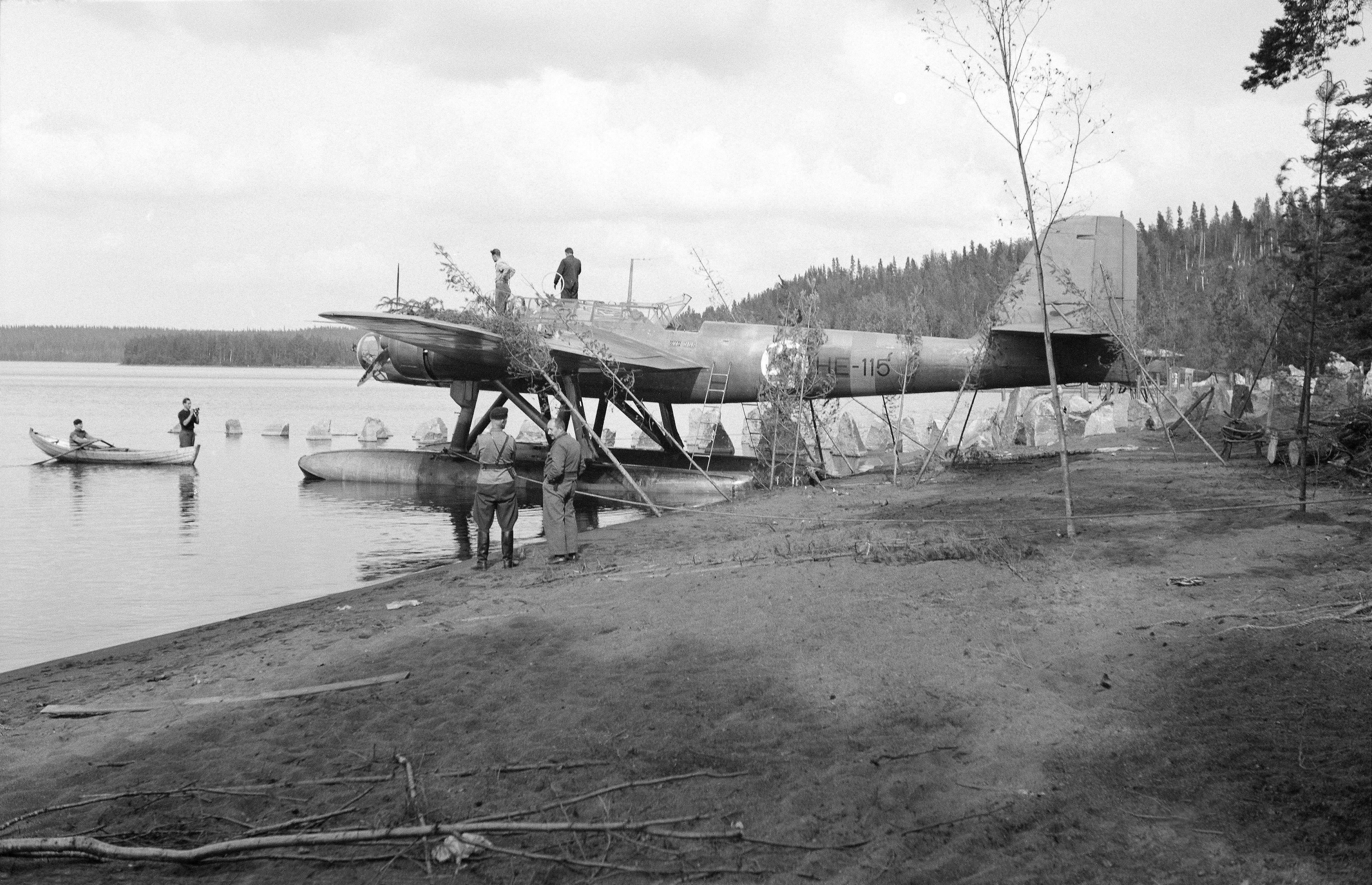 Heinkel He 115A of LeLv 15. Höytiäinen, Hirviranta (Finland)